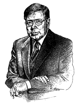 1988 portrait illustration of Charles Arthur Bowsher.